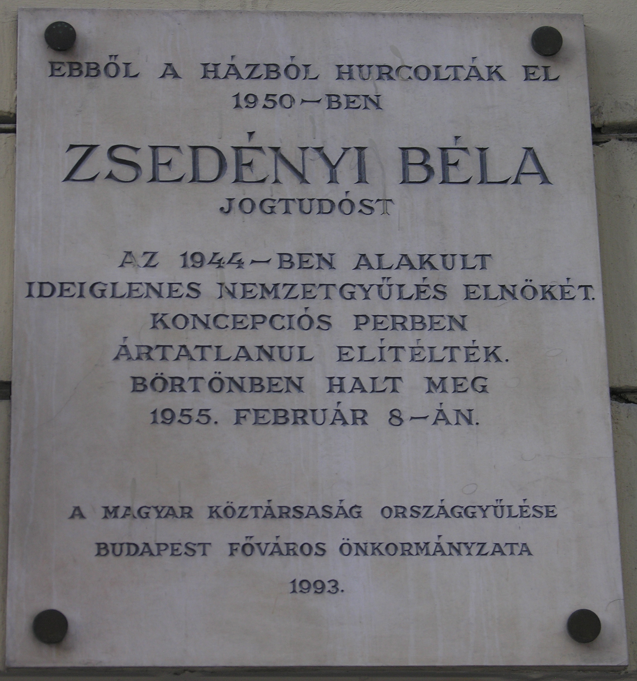 Commemorative plaque of Béla Zsedényi in Budapest District V, Veres Pálné Street No 14